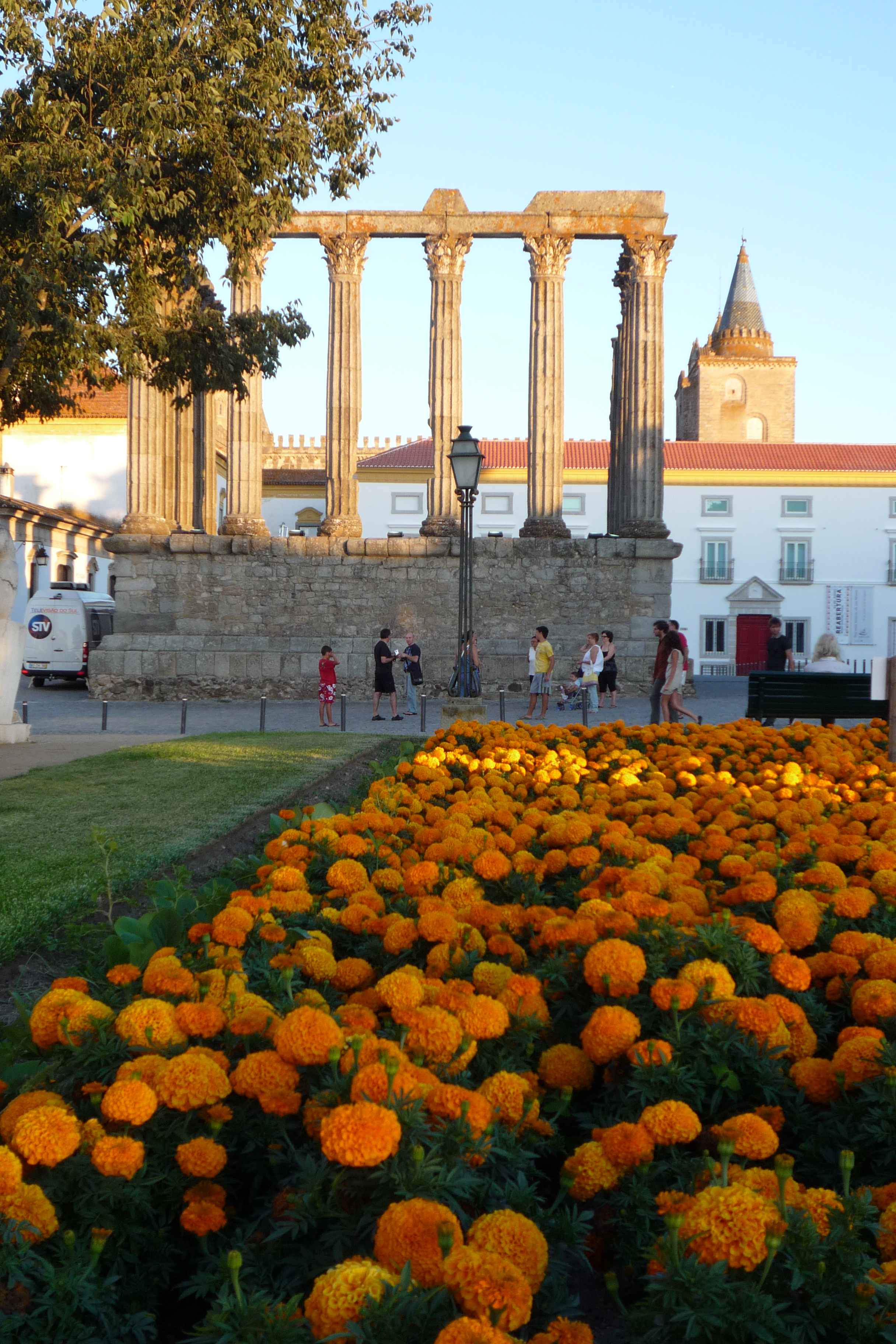 This file was uploaded for Wiki Loves Monuments in Portugal with the unique identifier 70489.